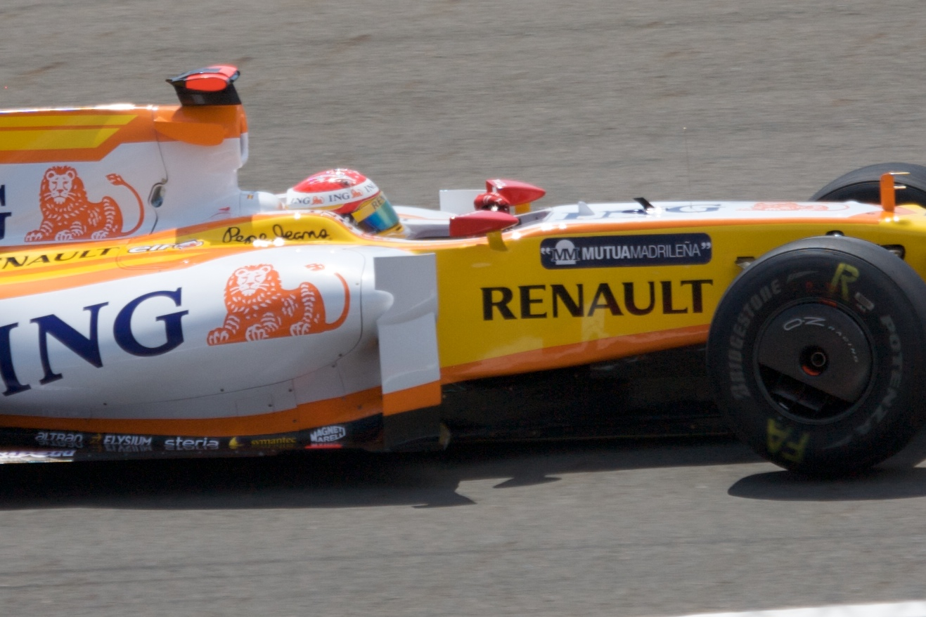 Fernando Alonso driving for Renault F1 at the 2009 Spanish Grand Prix.